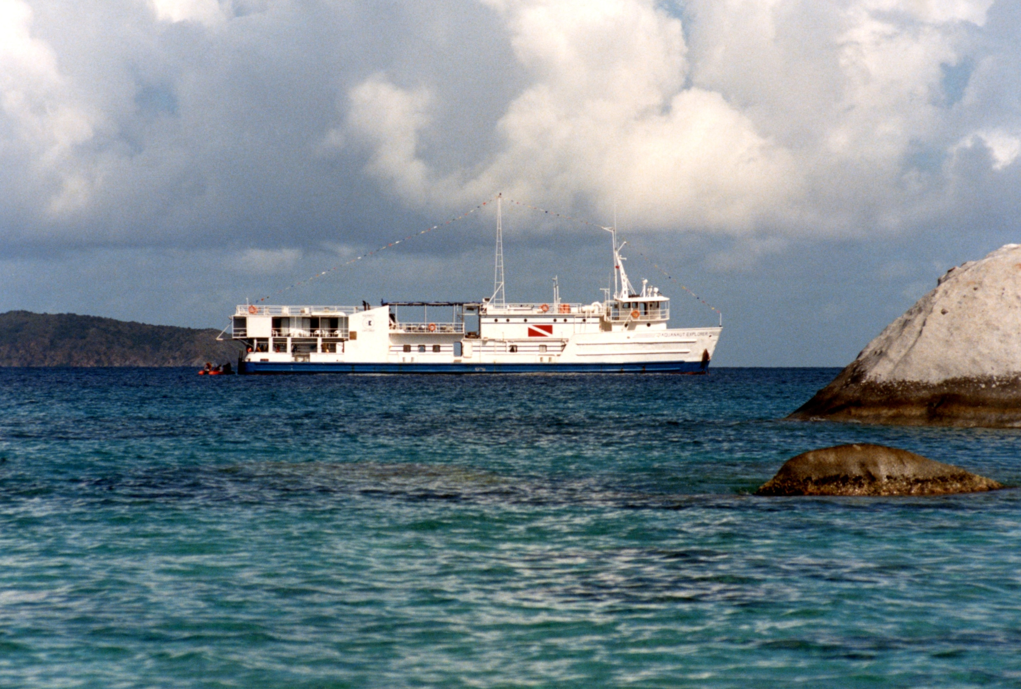 The dive boat Aquanaut Explorer (IMO number 7101231) anchored off The Baths on Virgin Gorda, an island in Sir Francis Drake Channel in the Virgin Islands, on 25 August 1987. The ship was built at Burton Shipyard in Port Arthur, Texas in 1964 and served as a seismic research vessel named Campeche Seal. It went into service named Aquanaut Explorer as a live-aboard dive ship in the Virgin Islands in 1986. Subsequently, it was named The Explorer in 1993, and most recently named as Atoll Explorer, when it began service as a passenger cruise ship in the Maldives. The ship's gross tonnage is 297 tons, and it is 50 metres (165 feet) long. It can accommodate 40 passengers in 20 cabins.